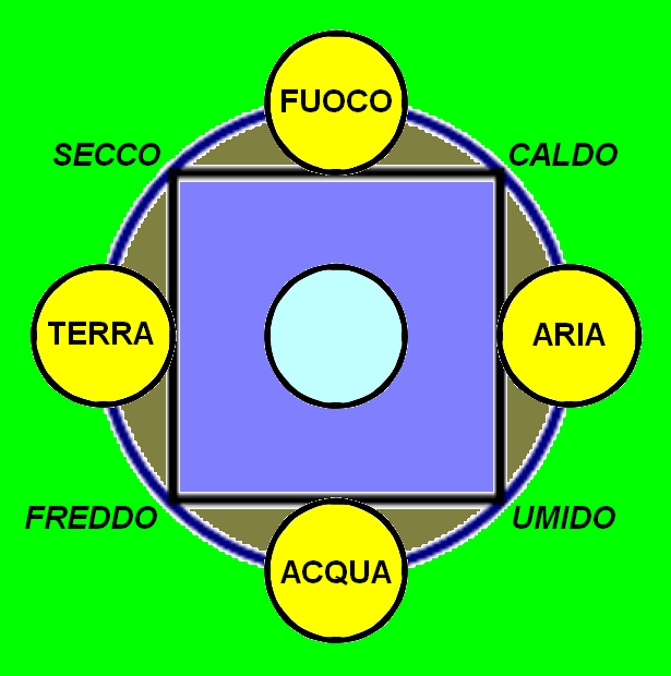 The four classical elements